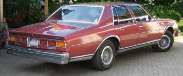 1979 Chevrolet Caprice, BUX model, rear view